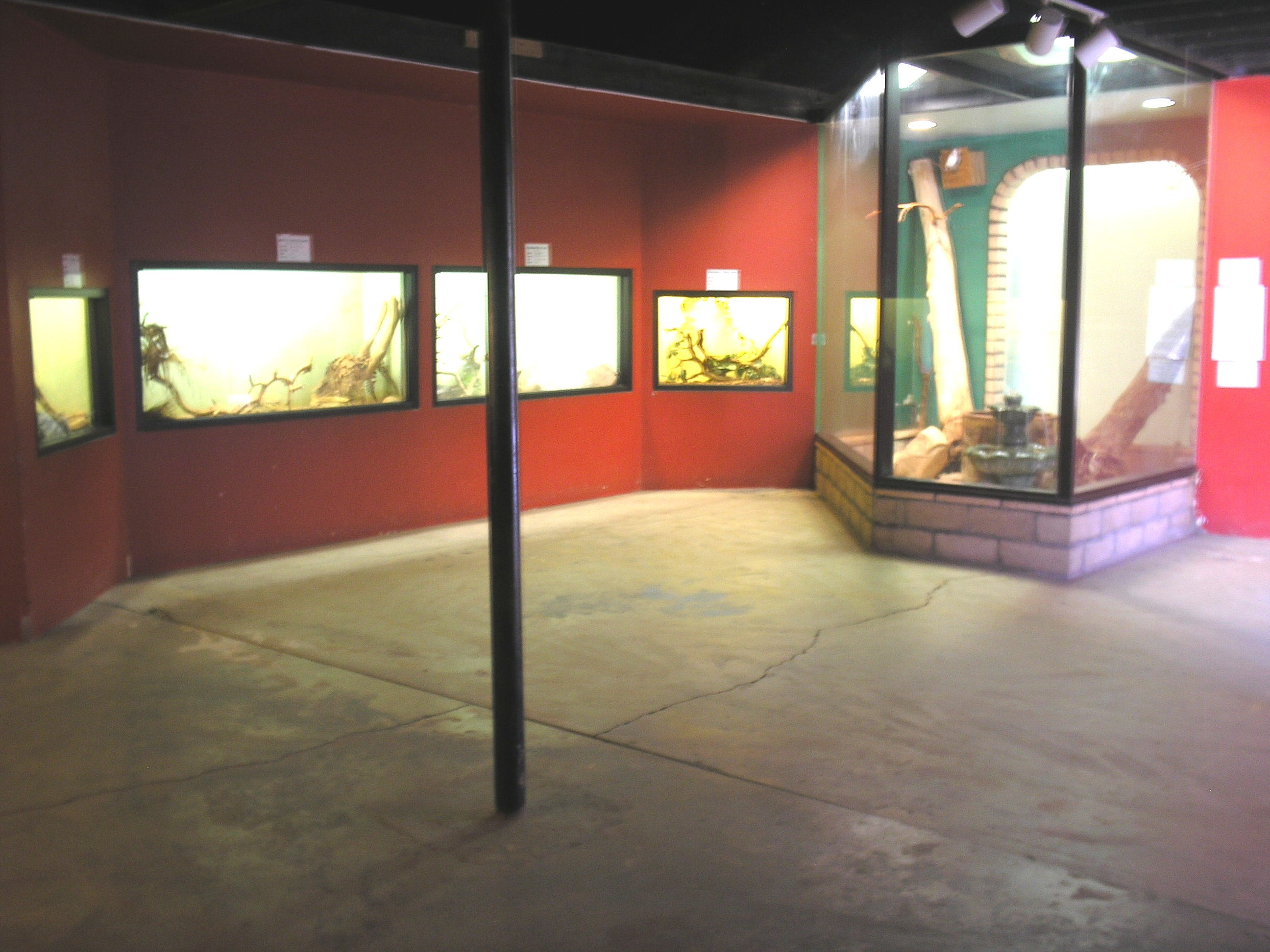 Reptile Room at Las Vegas Zoo